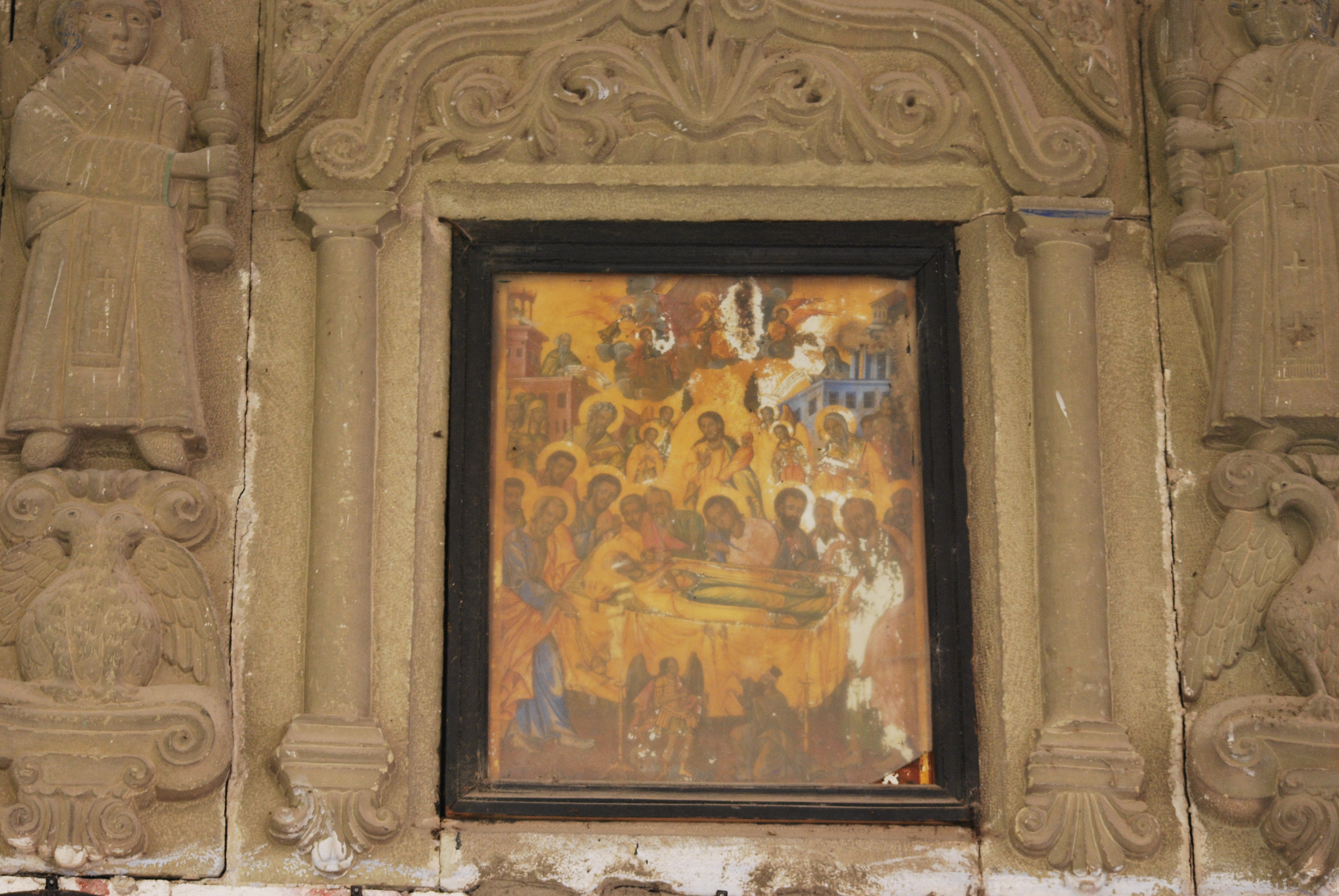 Dormition of the Theotokos Church in Novo Selo, Štip, Macedonia